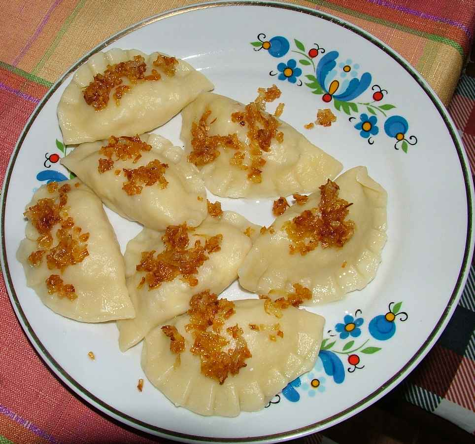 Polish pierogi ruskie (Ruthenian dumplings) (pierogi made by wife of User Stako)